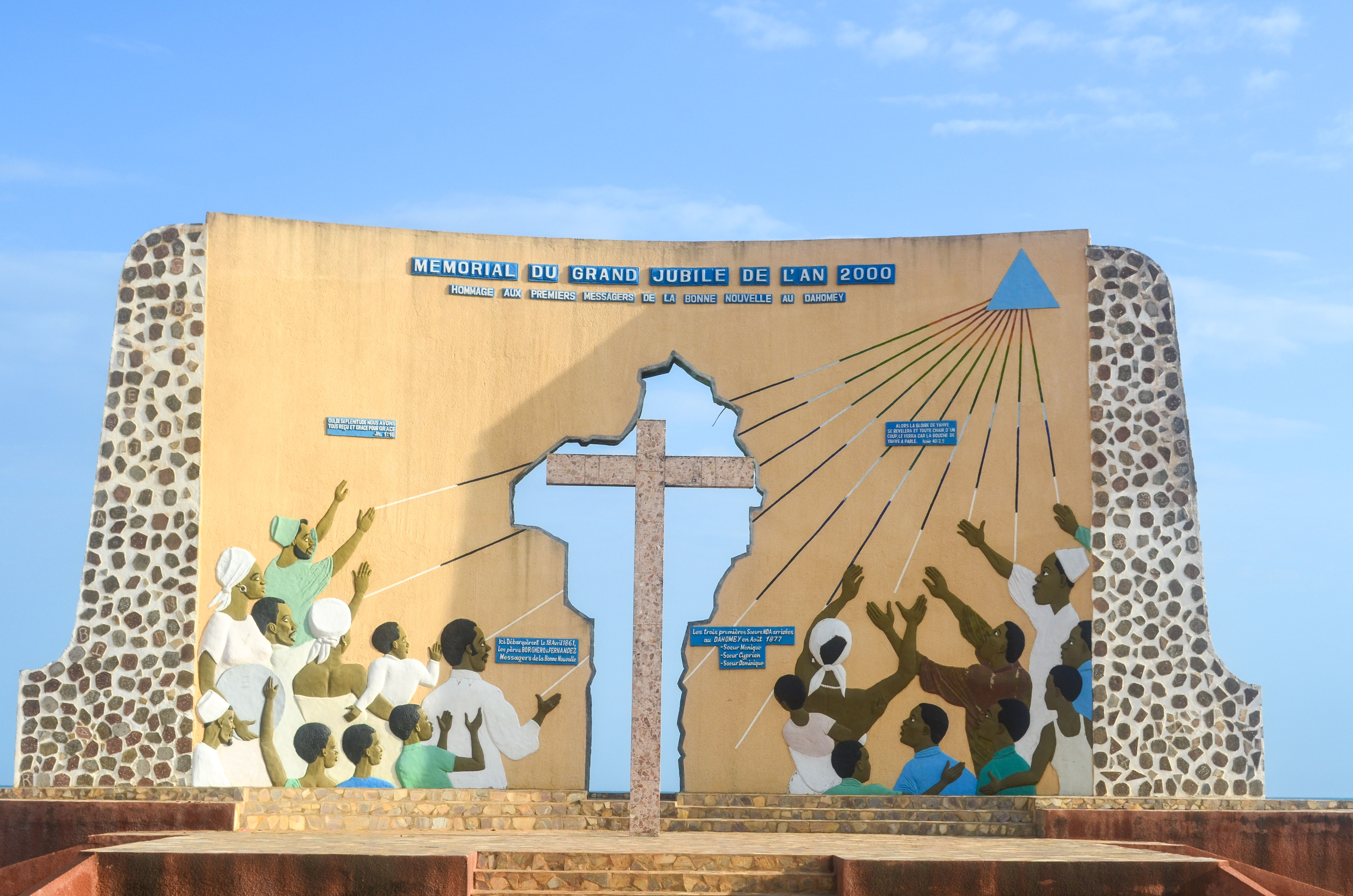 Taken on 10 October 2013 in Benin around Ouidah : Cycling Africa beyond mountains and deserts until Cape Town